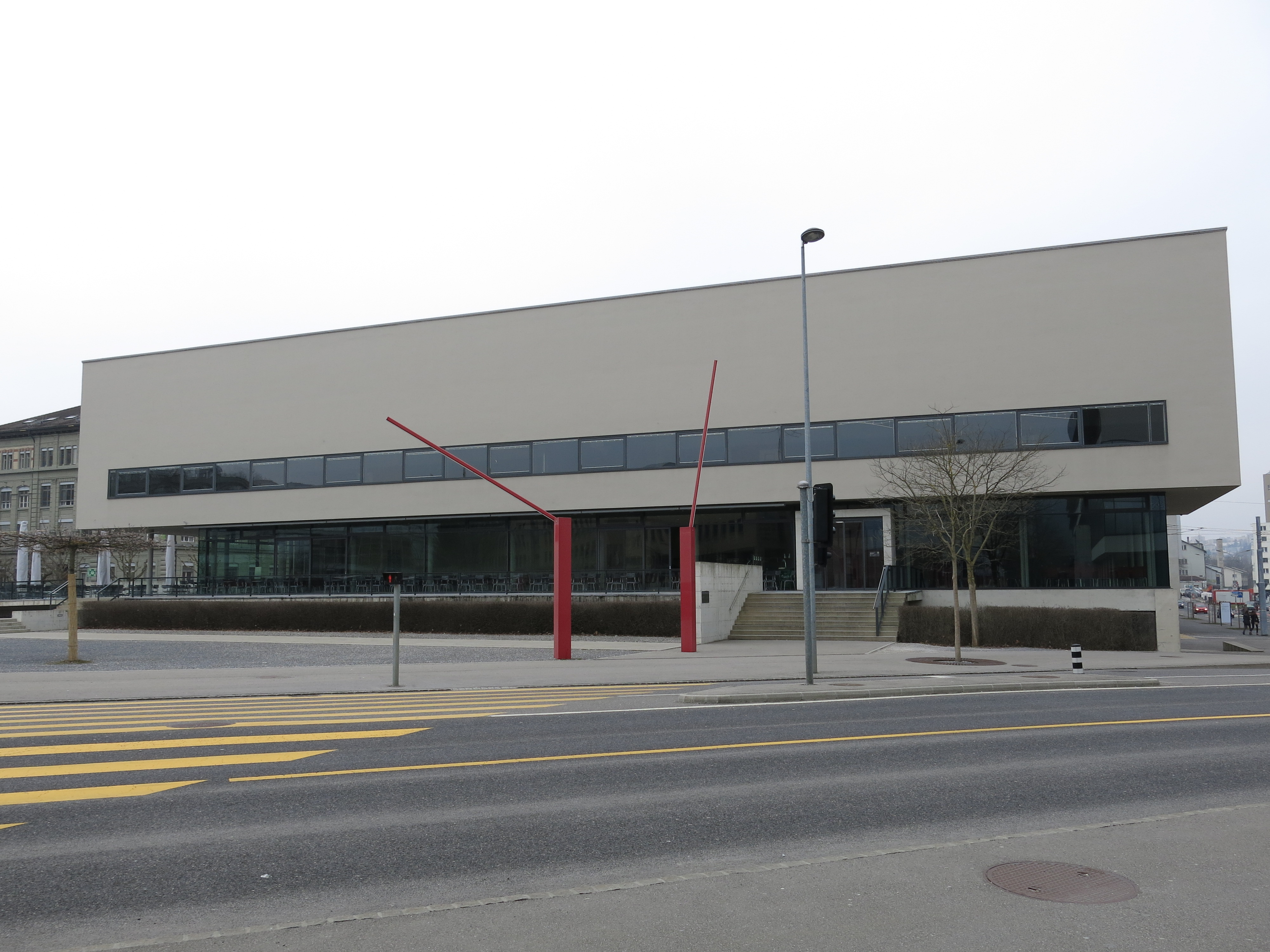 Fribourg, Switzerland